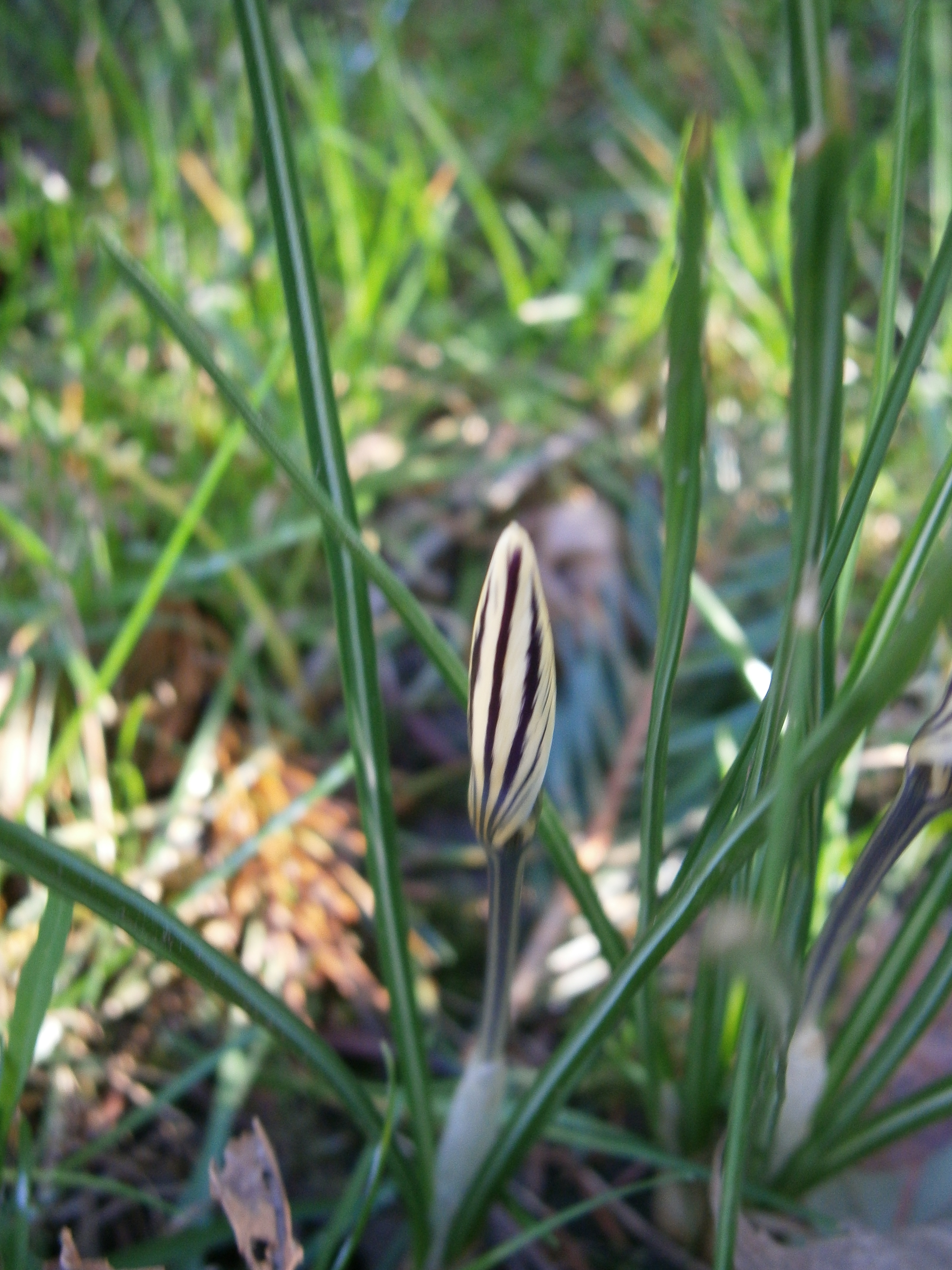 Crocus biflorus closed